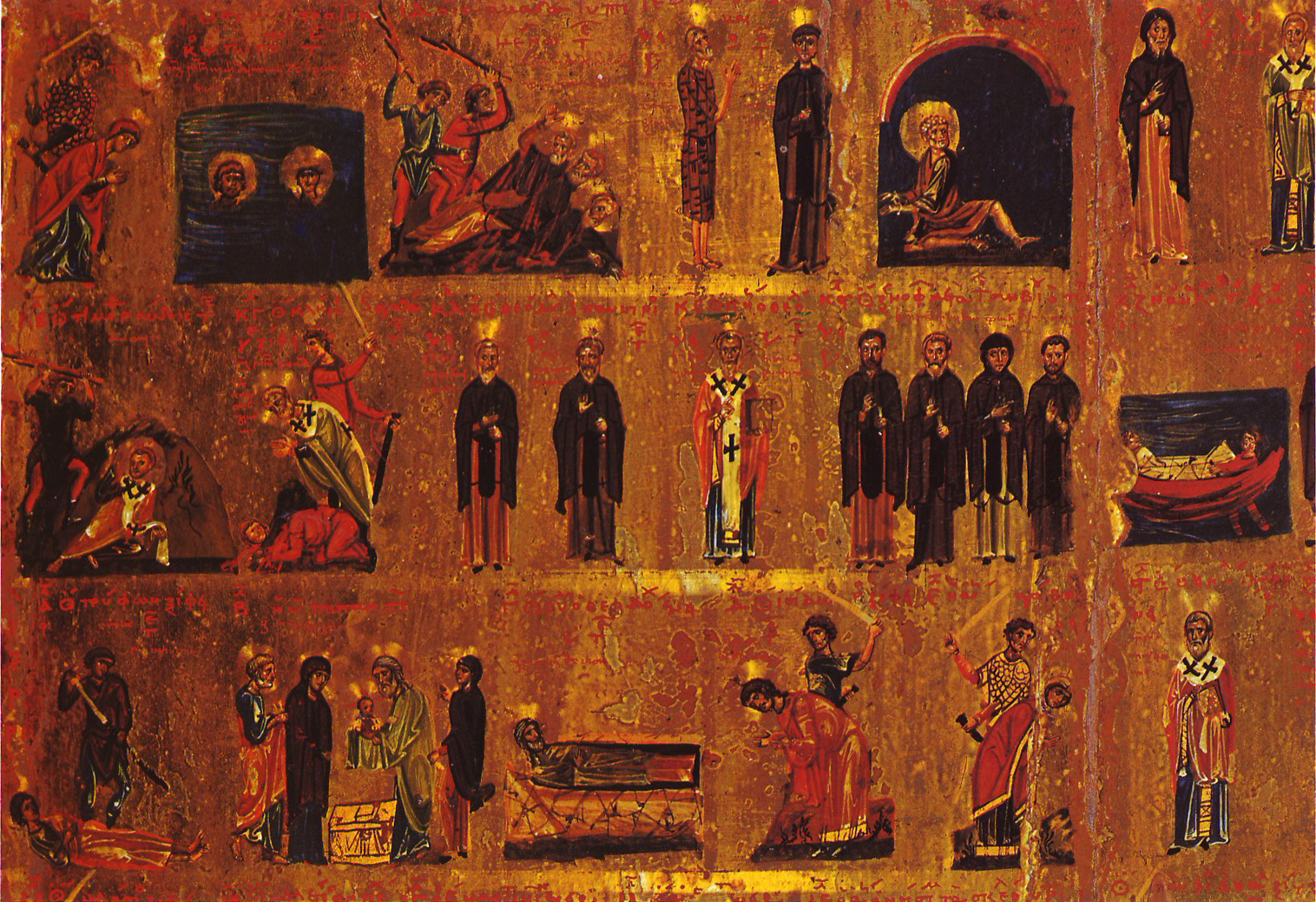 Saints of January and February feasts from a calendar icon (one of four), 2nd half of 11th century. 26.9x28.2 cm